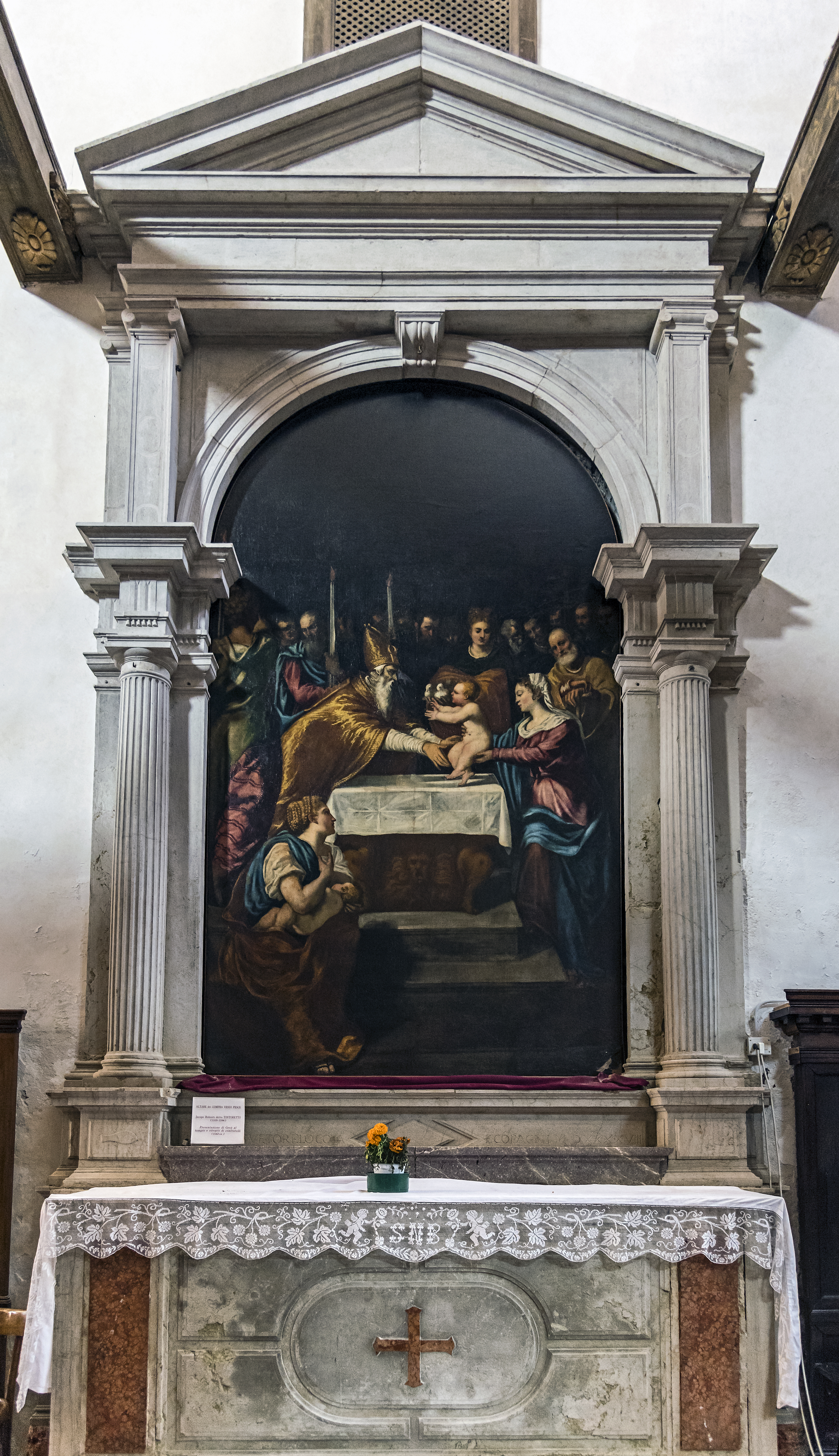 Santa Maria dei Carmini church in Venice. Altar of the "schola picola" of fishermanand fishmongers (1548)